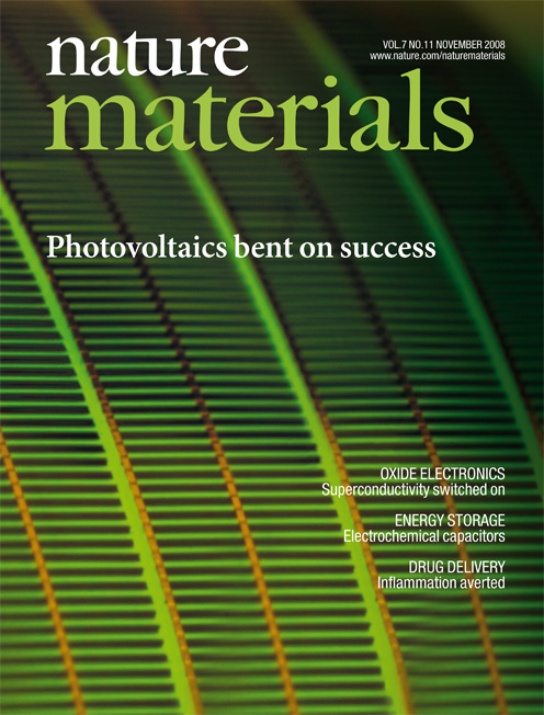 November 2008 cover of Nature Materials.